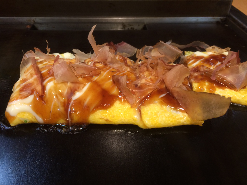 Tonpei-yaki.